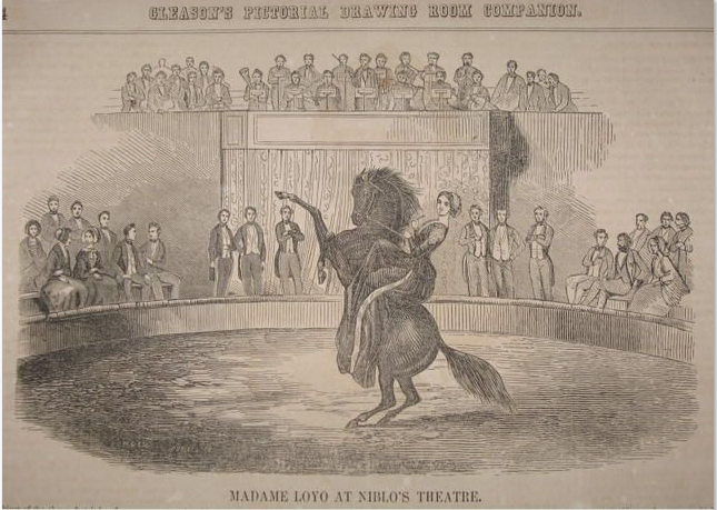 Holzschnitt "Madam Loyo at Niblo's Theatre." published in Gleason's Pictorial, an illustrated Boston newspaper, in May of 1851.